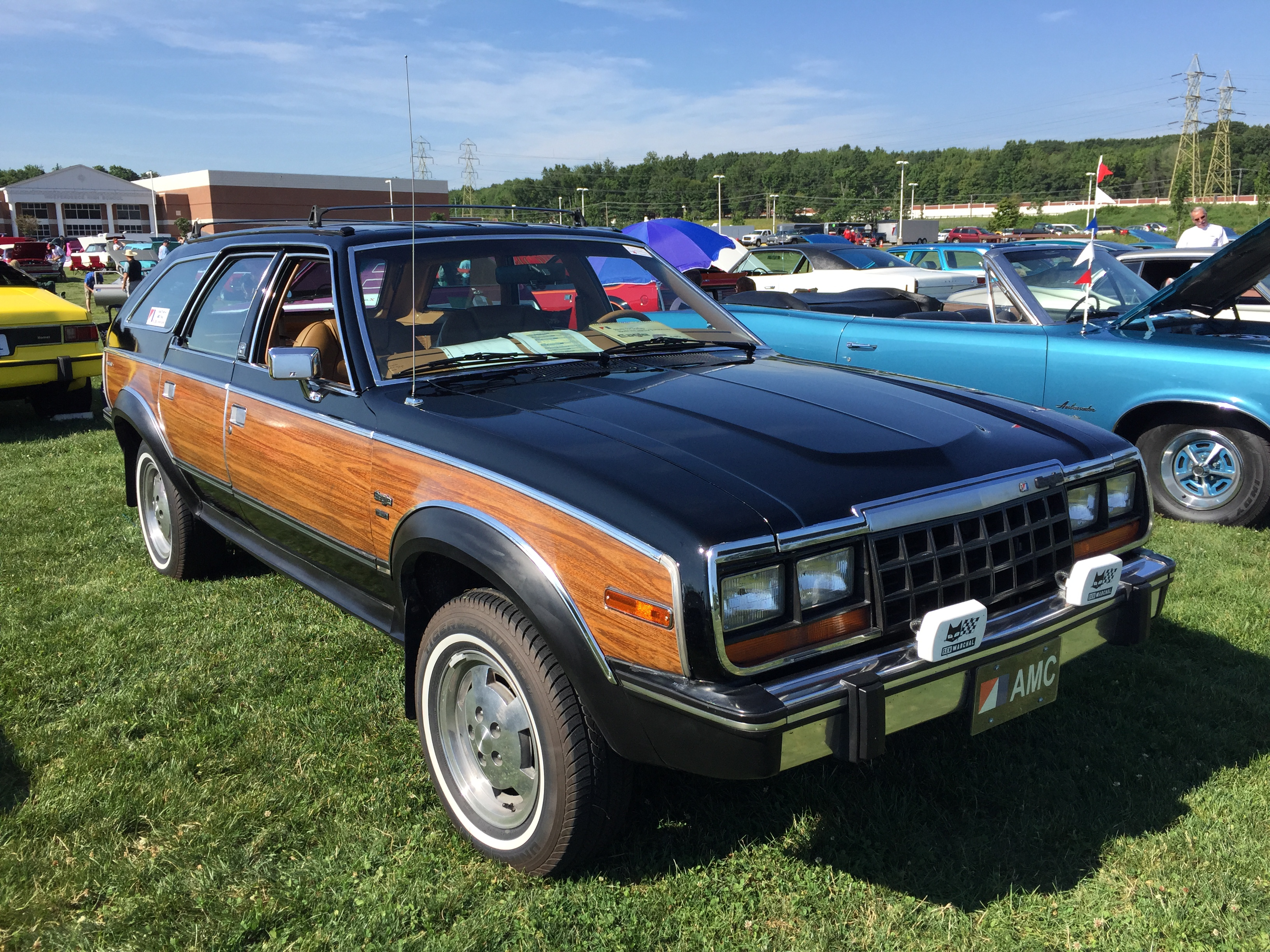 1987 AMC Eagle Limited 4-door station wagon with the optional simulated woodgrain trim on the body sides. This is an innovative fully automatic all-wheel-drive vehicle made by the American Motors Corporation (AMC). This is the top-of-the-line Limited version with numerous standard features that include individually adjustable reclining front seats and all leather upholstery, extra thick carpeting, woodgrain steering wheel, dual chrome outside mirrors with remote controls, etc. The Limited models had standard wire wheel covers, but this Eagle has has the optional "Sport aluminum" wheels. Photograph taken during the American Motors Owners Association (AMO) annual convention that was held July 2015 near Cleveland, Ohio.